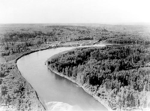 Fort McMurray, Alberta in approximately 1930.